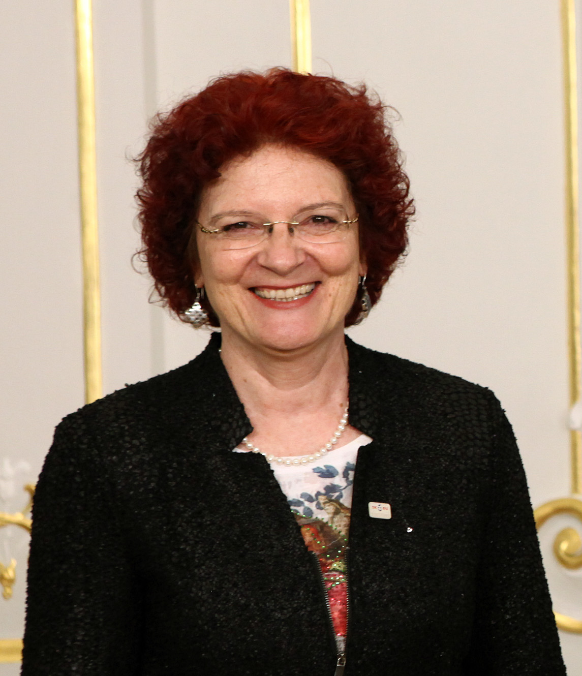 Slovakia, Mr. Tomas Drucker, Minister of Health (R), European Centre for Disease Prevention and Control (ECDC), Mrs. Andrea Ammon, Acting Director (L) Informal Meeting of Ministers for Health (Informal EPSCO/Health) Photo: Andrej Klizan